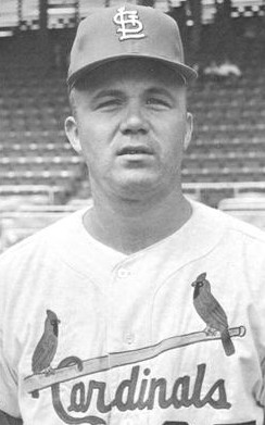 Professional baseball player Dennis Aust